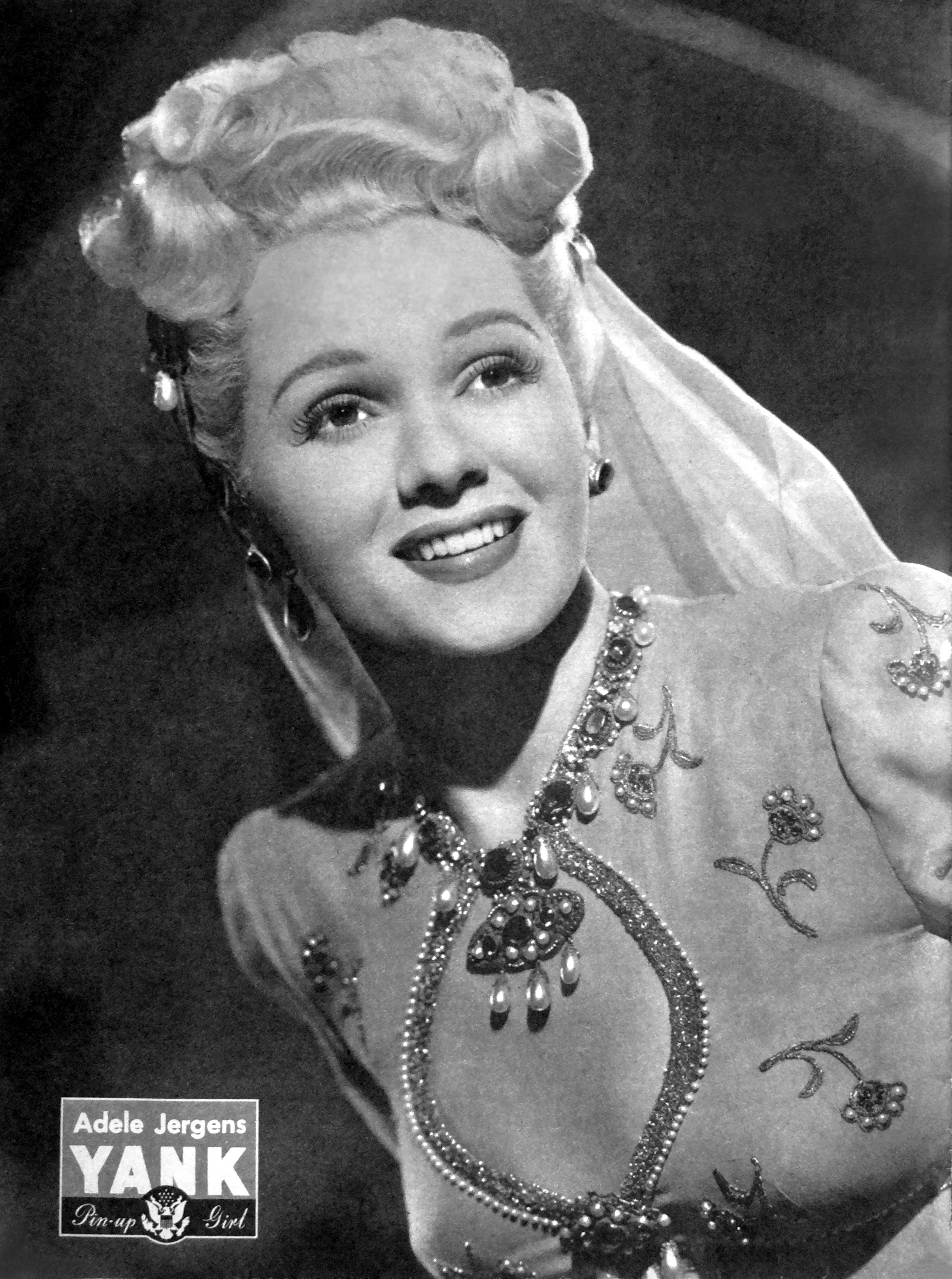 Adele Jergens pin-up from Yank, The Army Weekly, July 1945